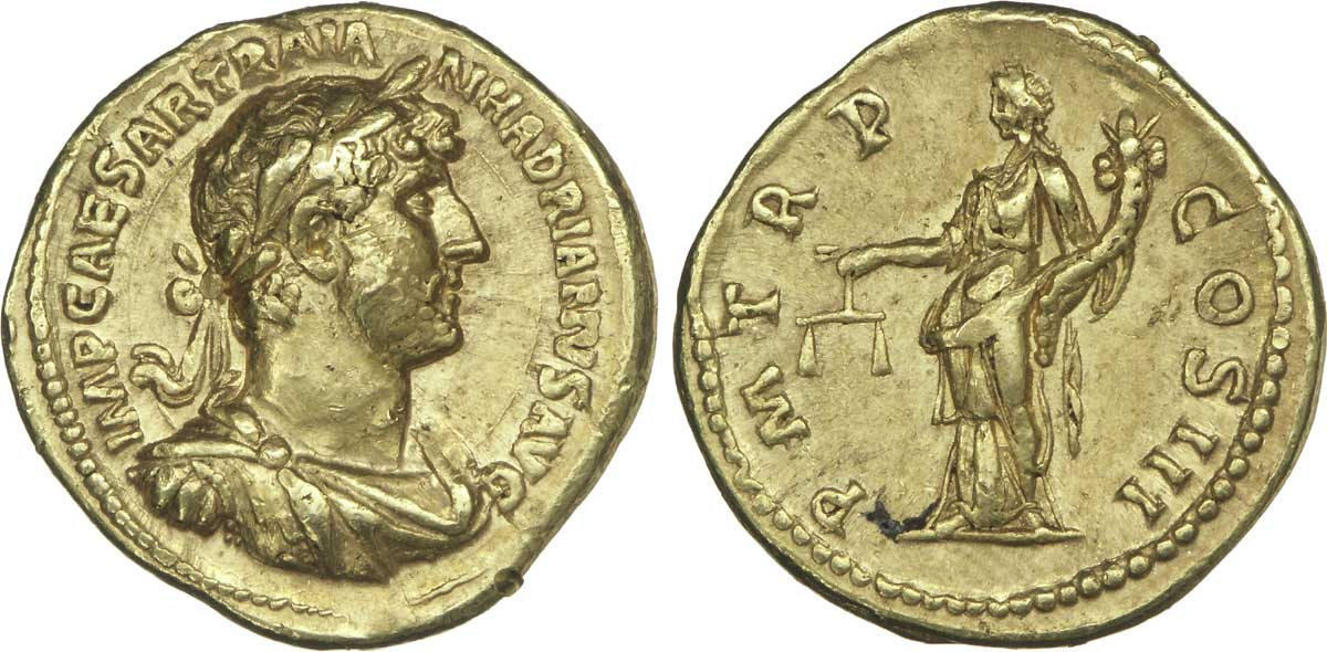 Aureus à l'effigie d'Hadrien Date : 123 Description revers : Aequitas ou Moneta (l’Équité ou la Monnaie)drapée debout à gauche, tenant une balance de la main droite et une corne d’abondance de la gauche .